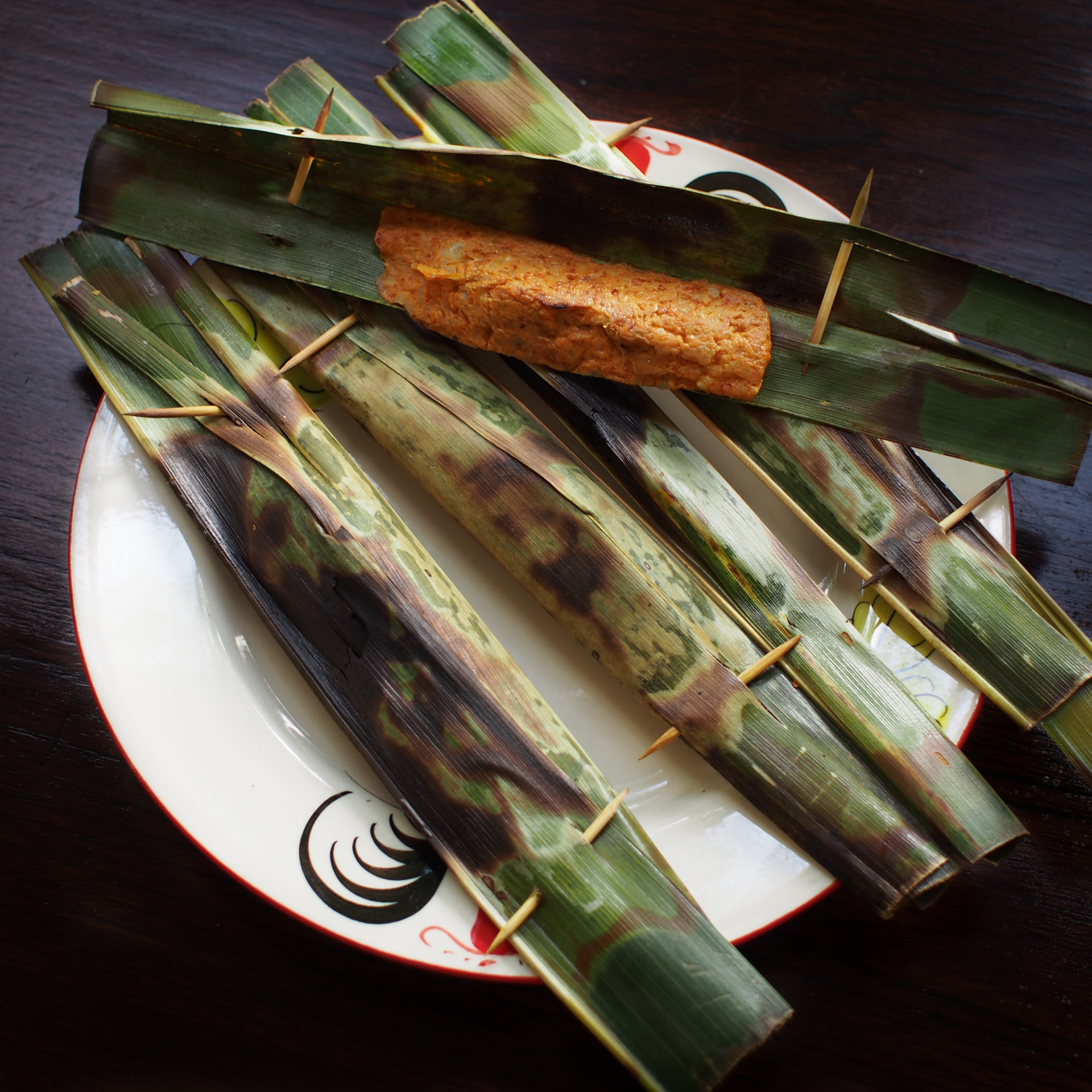 Otak-otak from a shop in Katong, Singapore. Puréed fish is mixed with a chilli paste, coconut milk and egg and then grilled, wrapped inside two sections of coconut palm leaf.